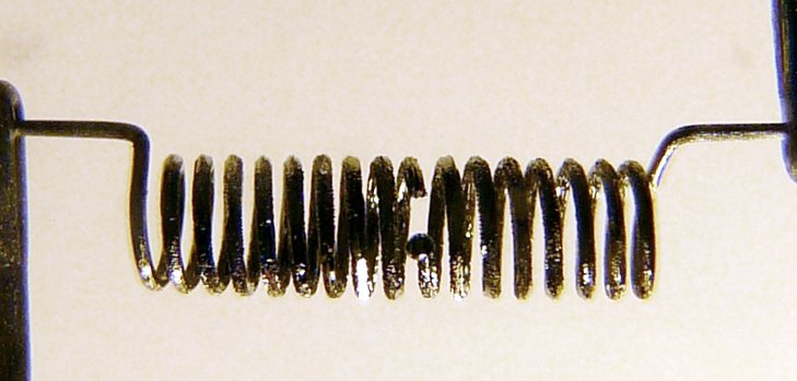 HB4 filament. Lamp failed when illuminated: see molten W-droplet. Length of coil: approx. 6mm.